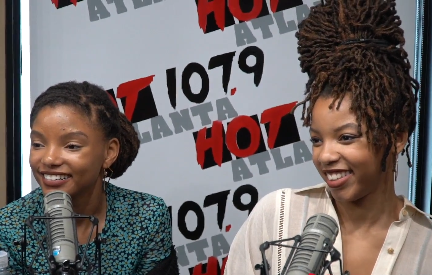 Chloe x Halle in 2018